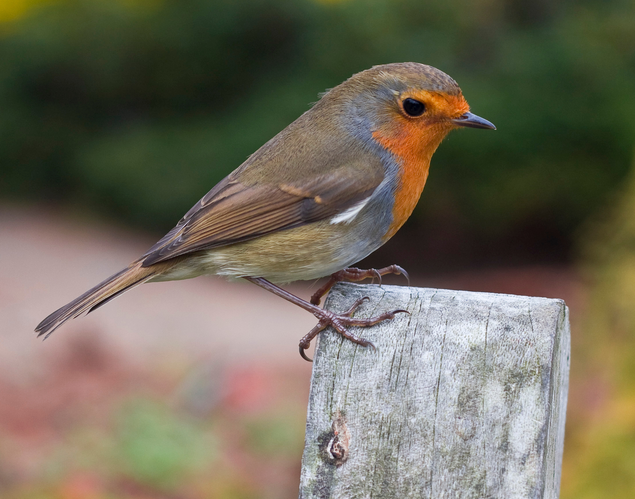 European Robin at RHS Garden Harlow Carr, Harrogate, North Yorkshire, England.